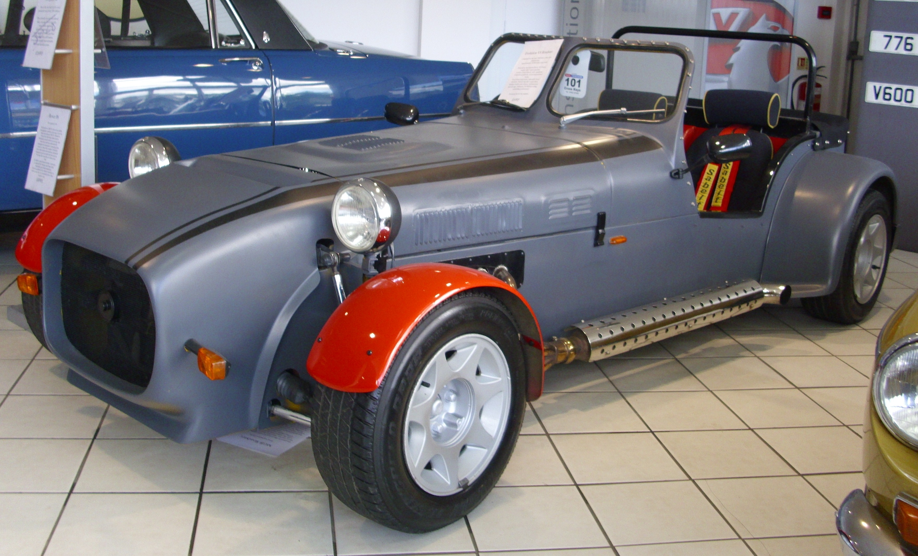 Evolution 1 Roadster 1998-2002